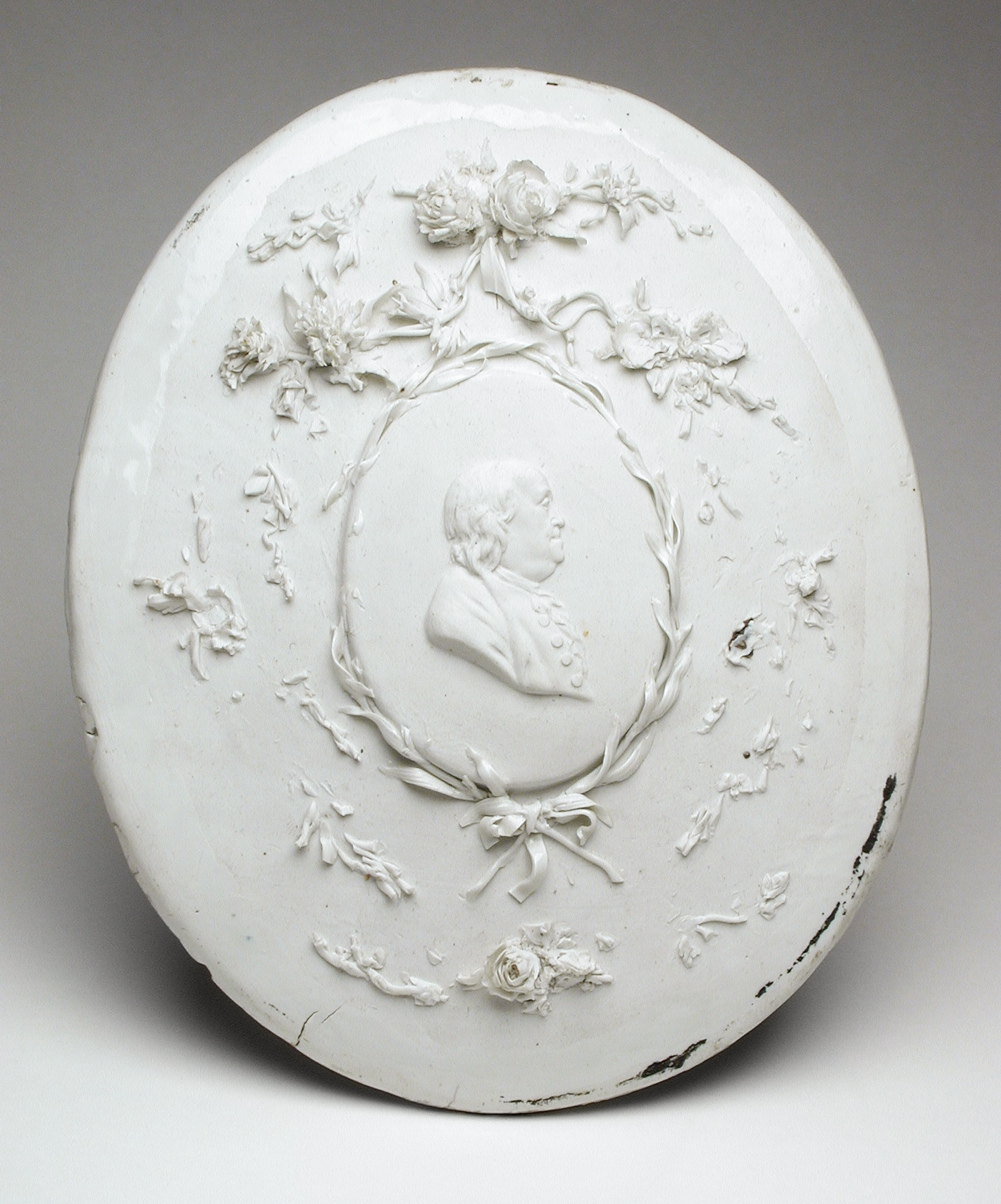 England, circa 1775 Sculpture Porcelain, biscuit Gift of Catherine C. Hearst (M.80.205.18) Decorative Arts and Design